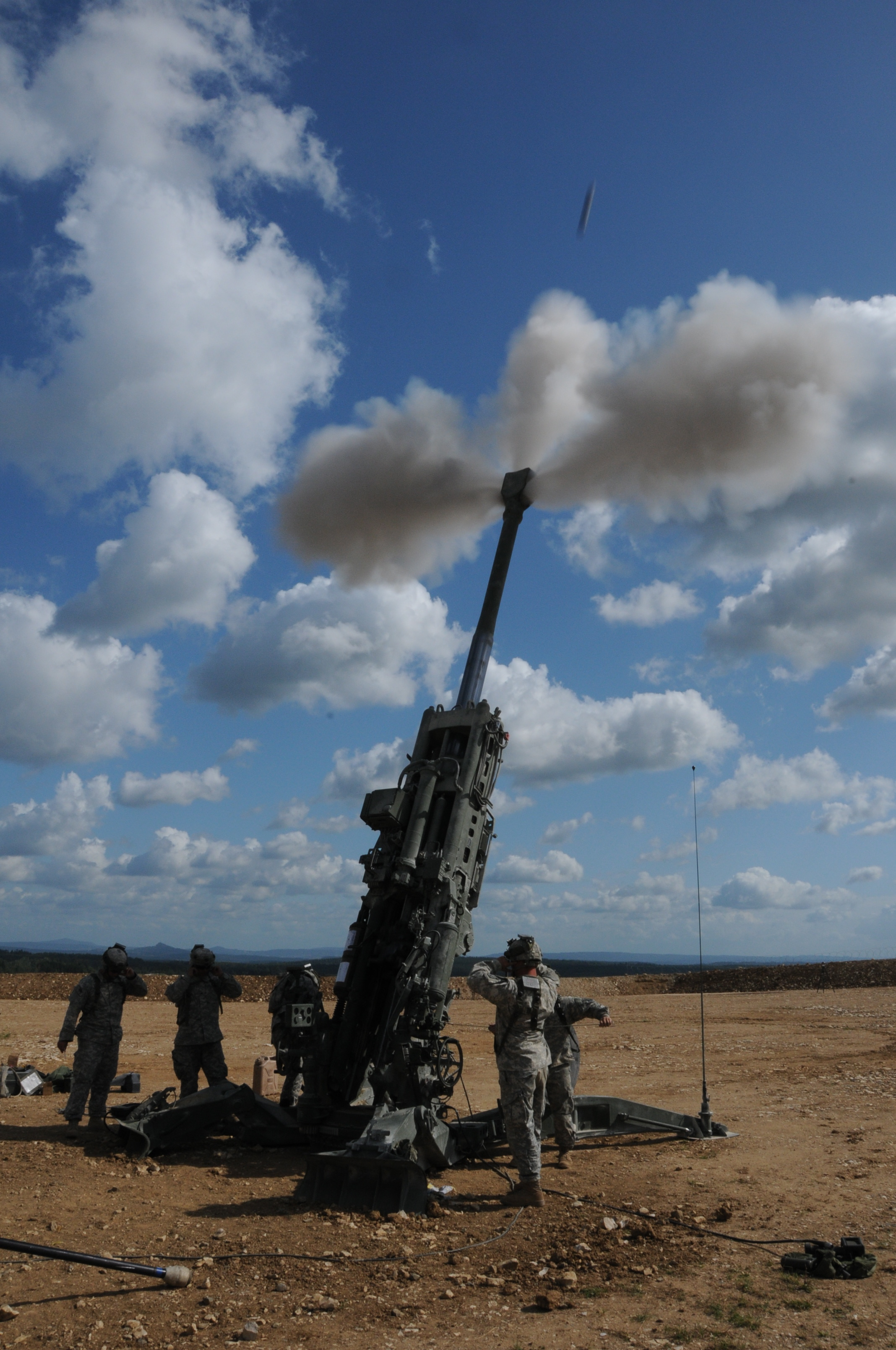 Soldiers from 4th Battalion, 319th Airborne Field Artillery Regiment, 173rd Airborn Brigade Combat Team, based out of Bamberg, Germany, fire a M777A2 at the live fire range at the 7th Army Joint Multinational Training Command's Grafenwoehr Training Area, Germany on August 29, 2009. The 173rd was in Grafenwoehr and Hohenfels to conduct a simultaneous predeployment mission rehearsal exercise with the 12th Combat Aviation Brigade. (U.S. Army photo by PFC Joshua Grenier/Released)